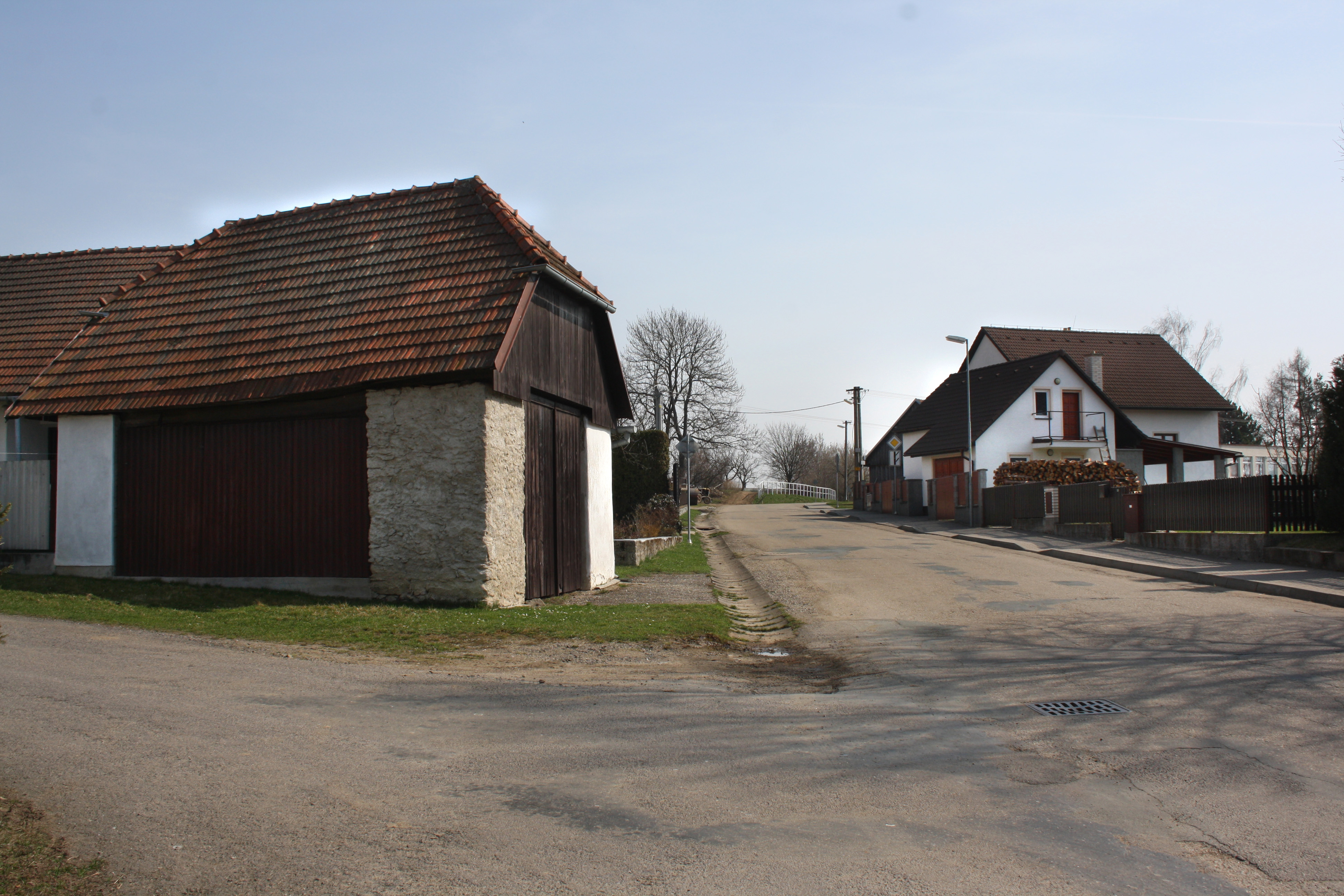 North part of Stránecká Zhoř